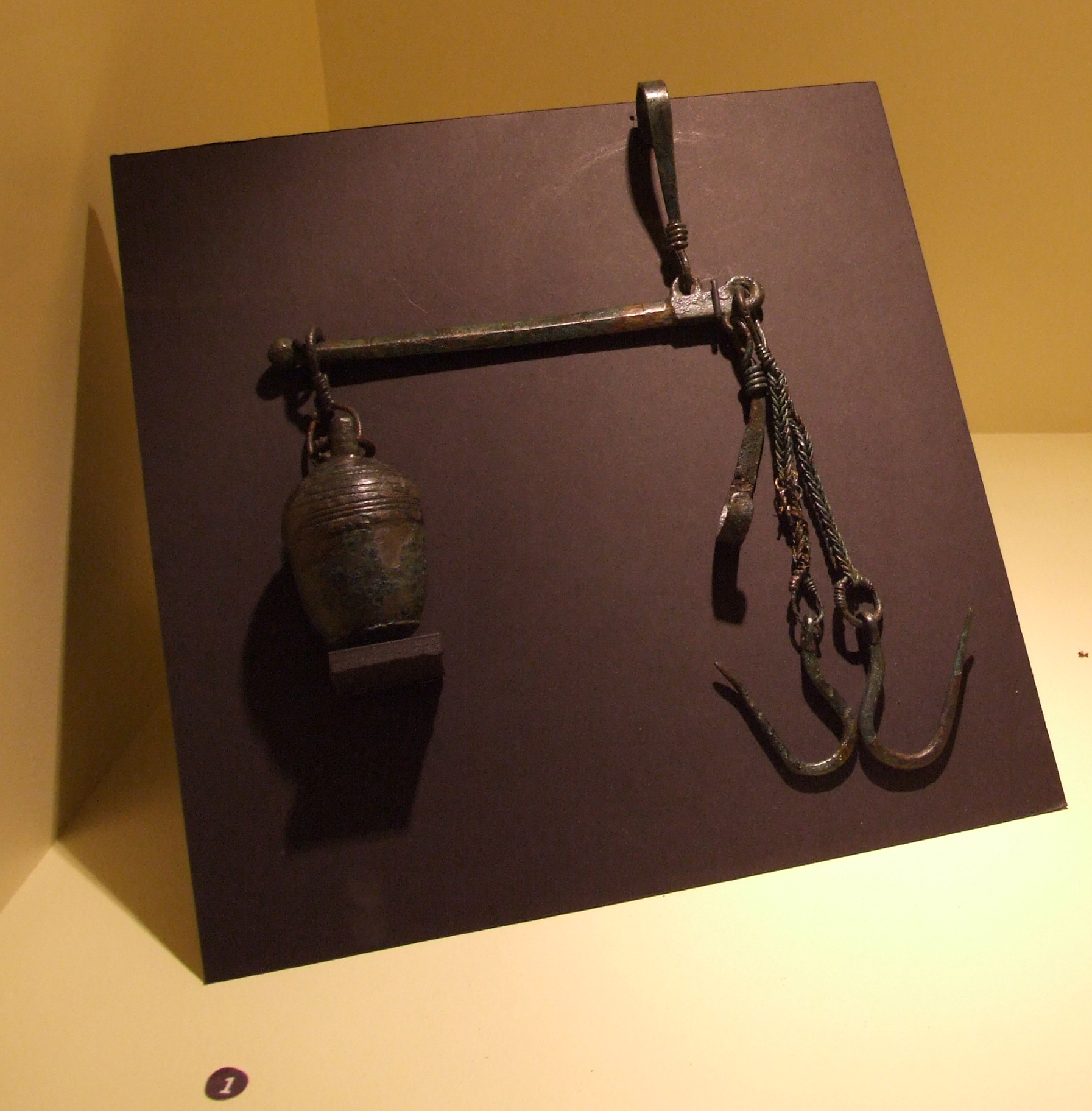 Roman bronze steelyard, Pompeii